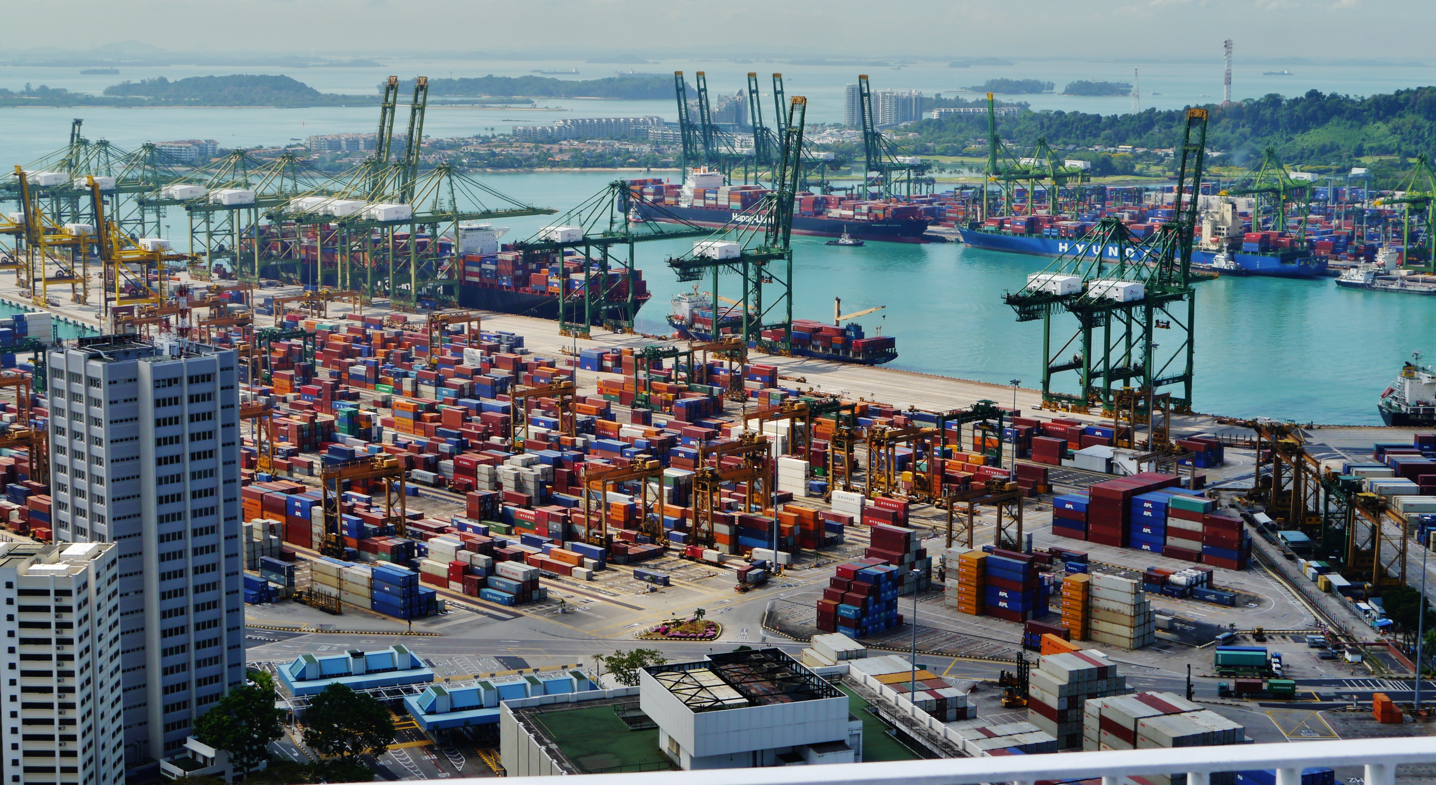 View from The Pinnacle@Duxton to one of the Ports, Singapore